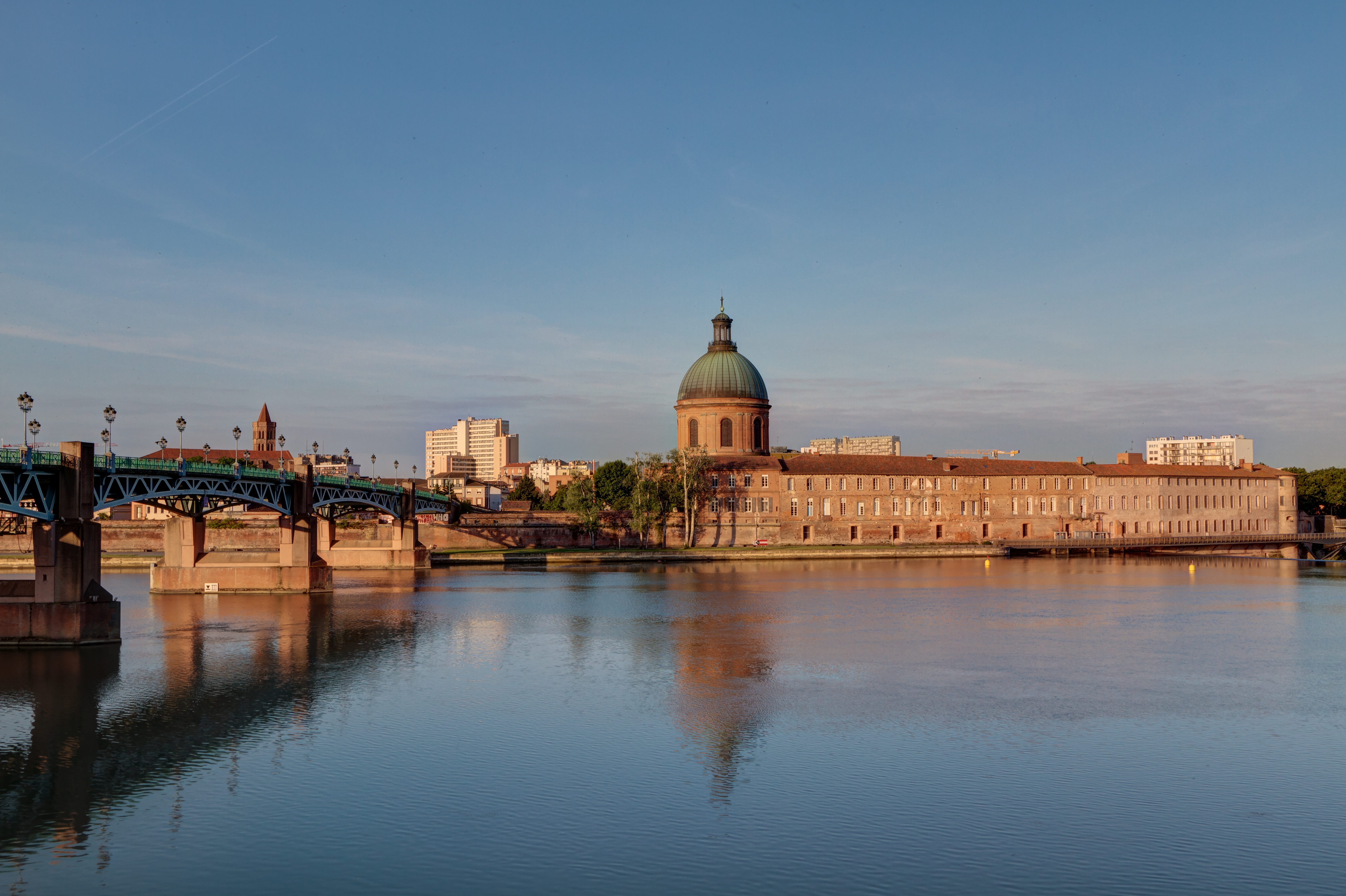 Hospital Saint-Joseph de la Grave viewed from Quai Saint-Pierre in Toulouse at 07.17am.